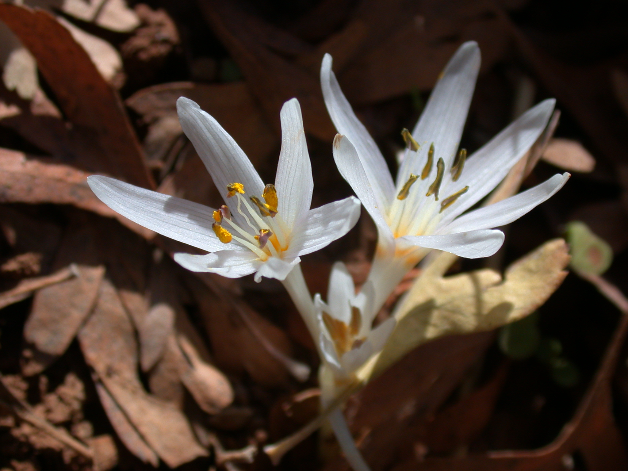 Colchicum antilibanoticum Gomb. (סתוונית החרמון), Mann Valley, Mount Hermon, Israel/Syria, November 12, 2006.